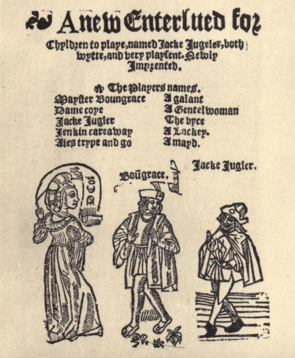 Title page of early printing of "Jack Juggler."